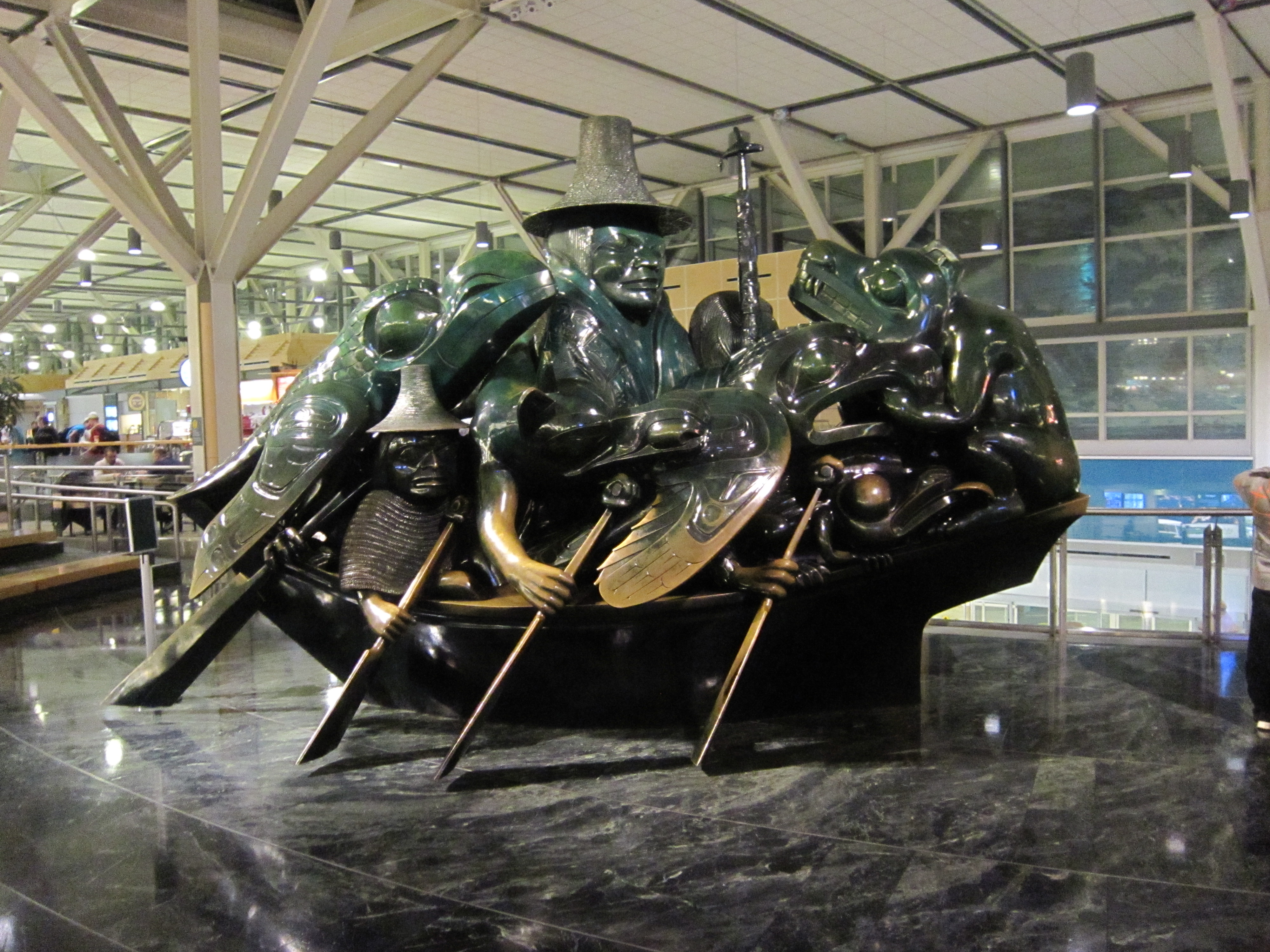 Representing the art culture in the community.